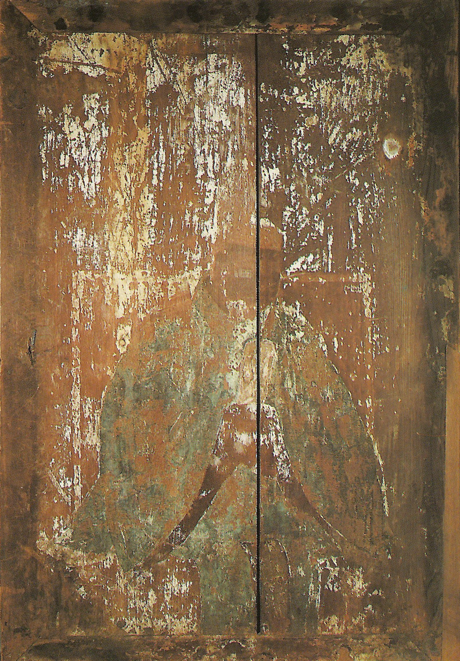 Door painting (tobira-e) from the honden of Ujigami Jinja, Uji, Kyoto Prefecture, Japan